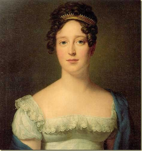 Queen Caroline Amalie of Denmark as a young woman